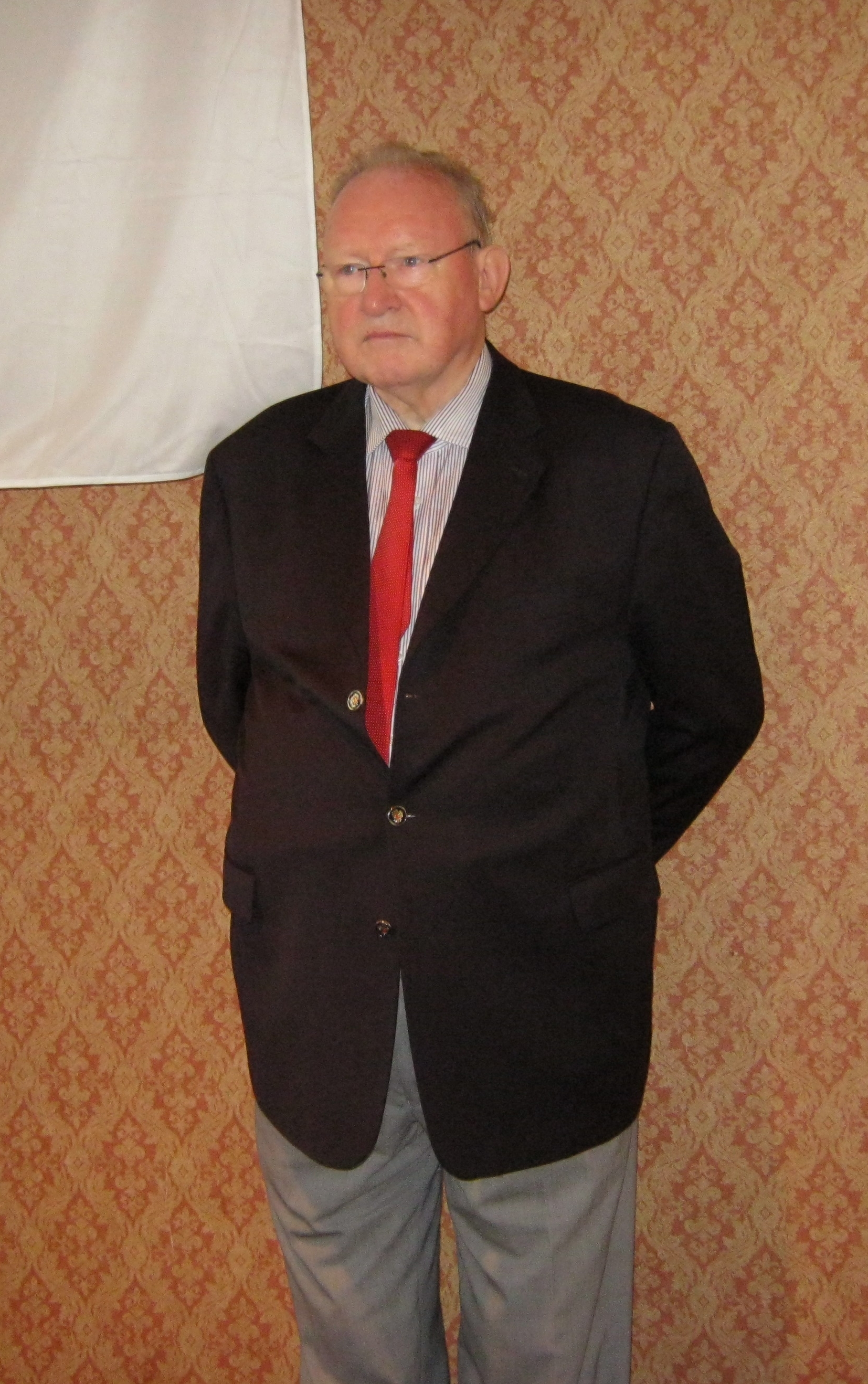 Geurt Gijssen, chess arbiter from the Netherlands